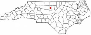 Category:North Carolina Dot Maps